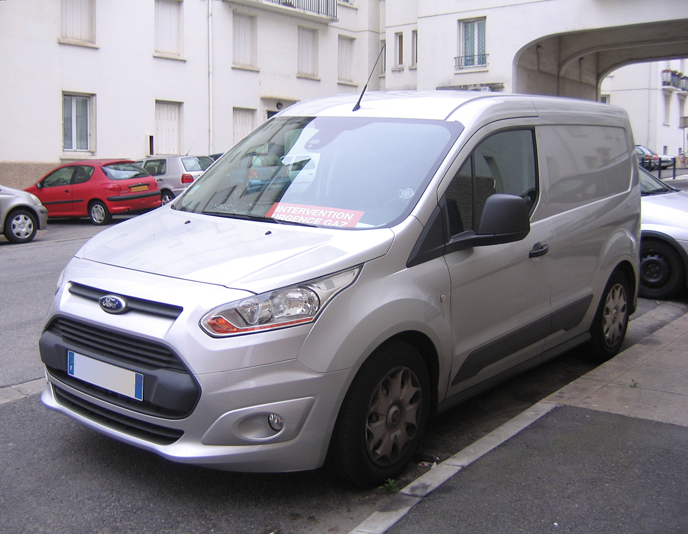 A second generation Ford Transit Connect.